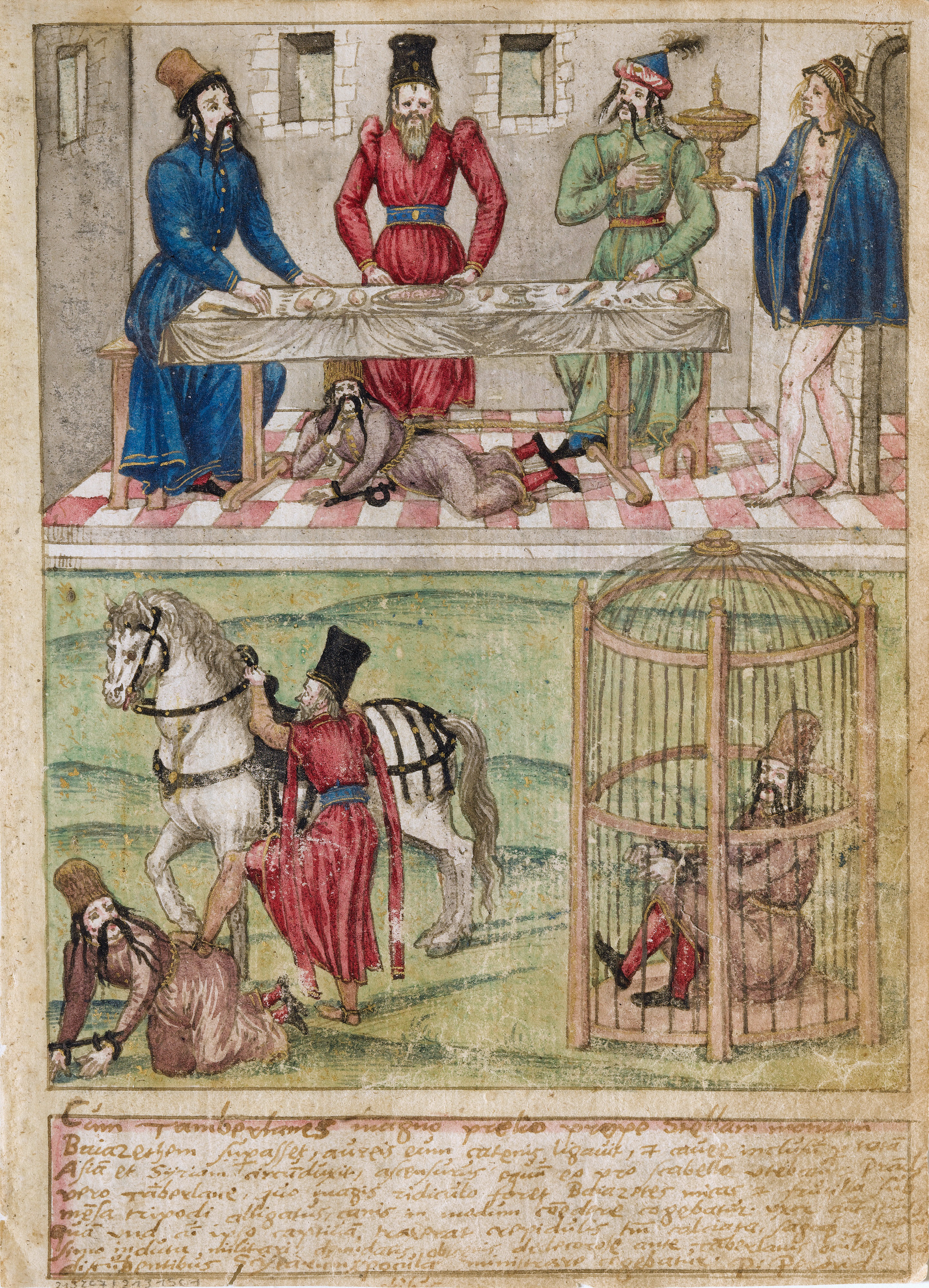 Timur the Great's imprisonment of the Ottoman Sultan Bayezid manuscript on paper 18.7 x 13.5 cm before 1561 the Sultan tied by his waist with a golden rope to Timur's table the Sultan bound and on all fours being used as a mounting-block by Timur, and similarly bound in his gilded cage